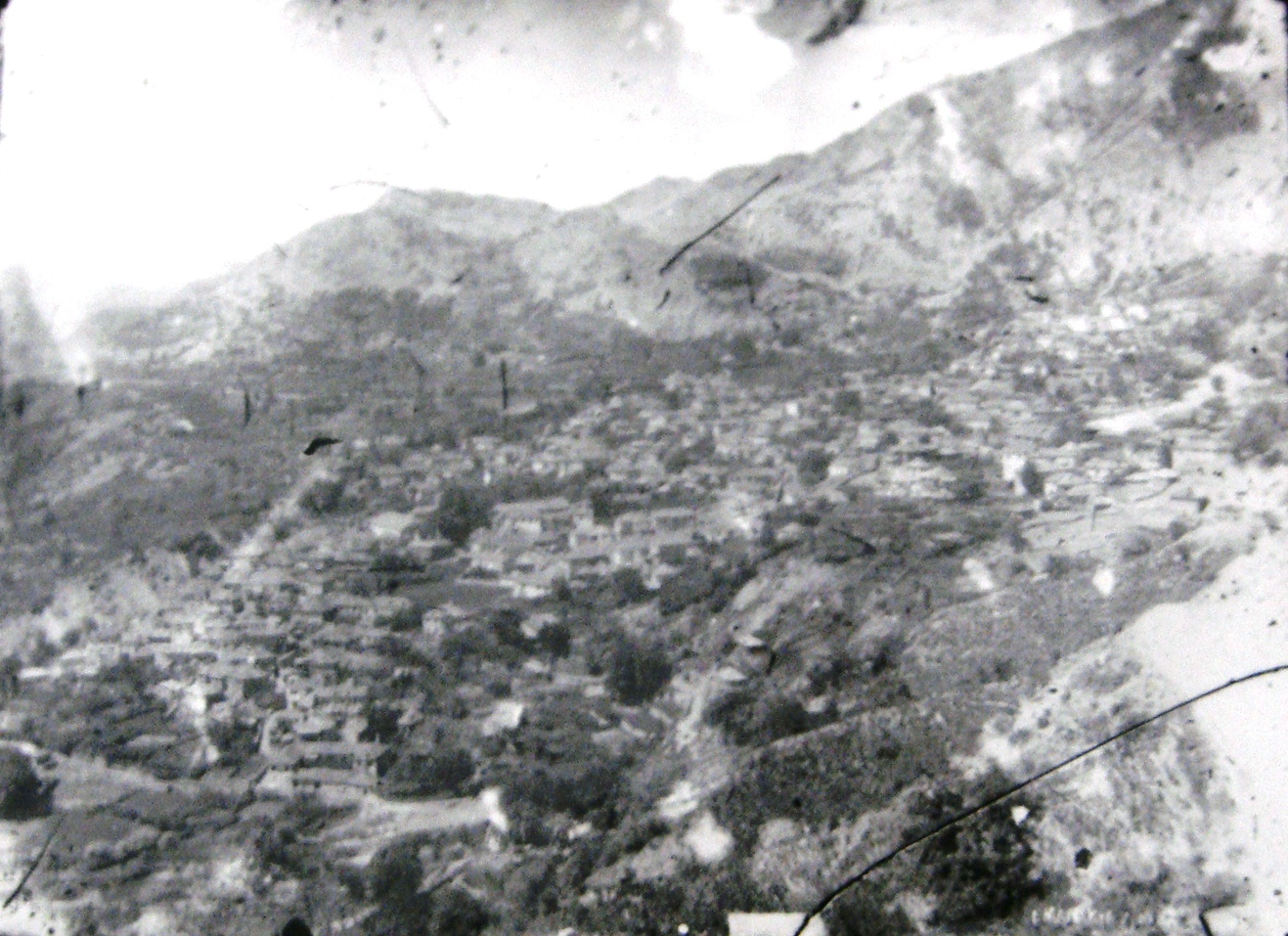 Panorama of the village of Laista, 1901 This media file is produced by Wikipedian in Residence in Category:Wikipedian in Residence at DARM in 2016.